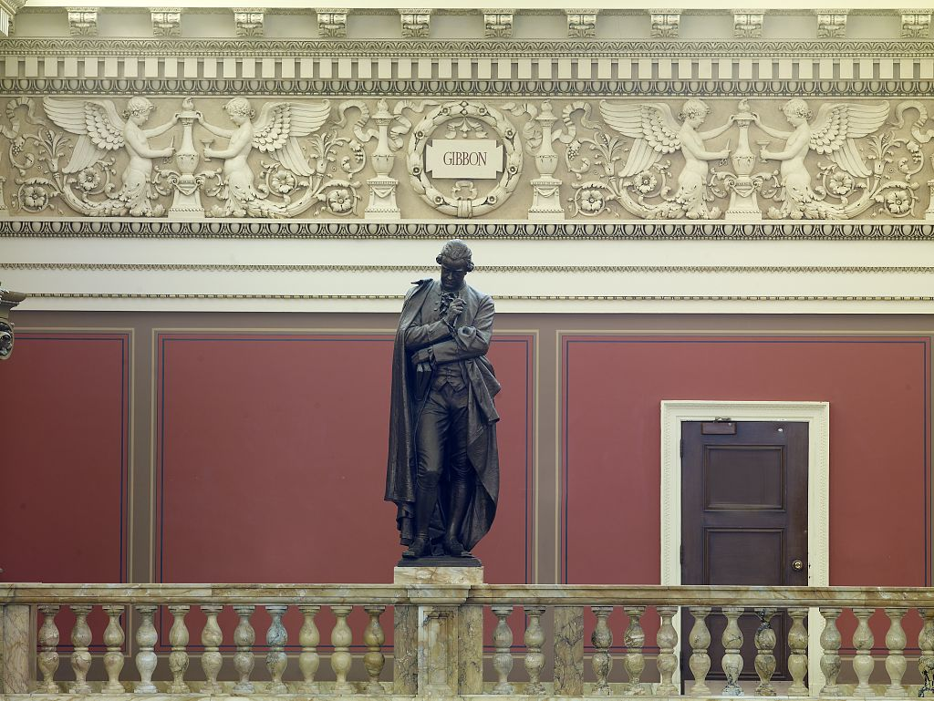 Main Reading Room. Portrait statue of Gibbon along the balustrade. Library of Congress Thomas Jefferson Building, Washington, D.C.